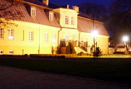 Olszewski's mansion in Bełchatów